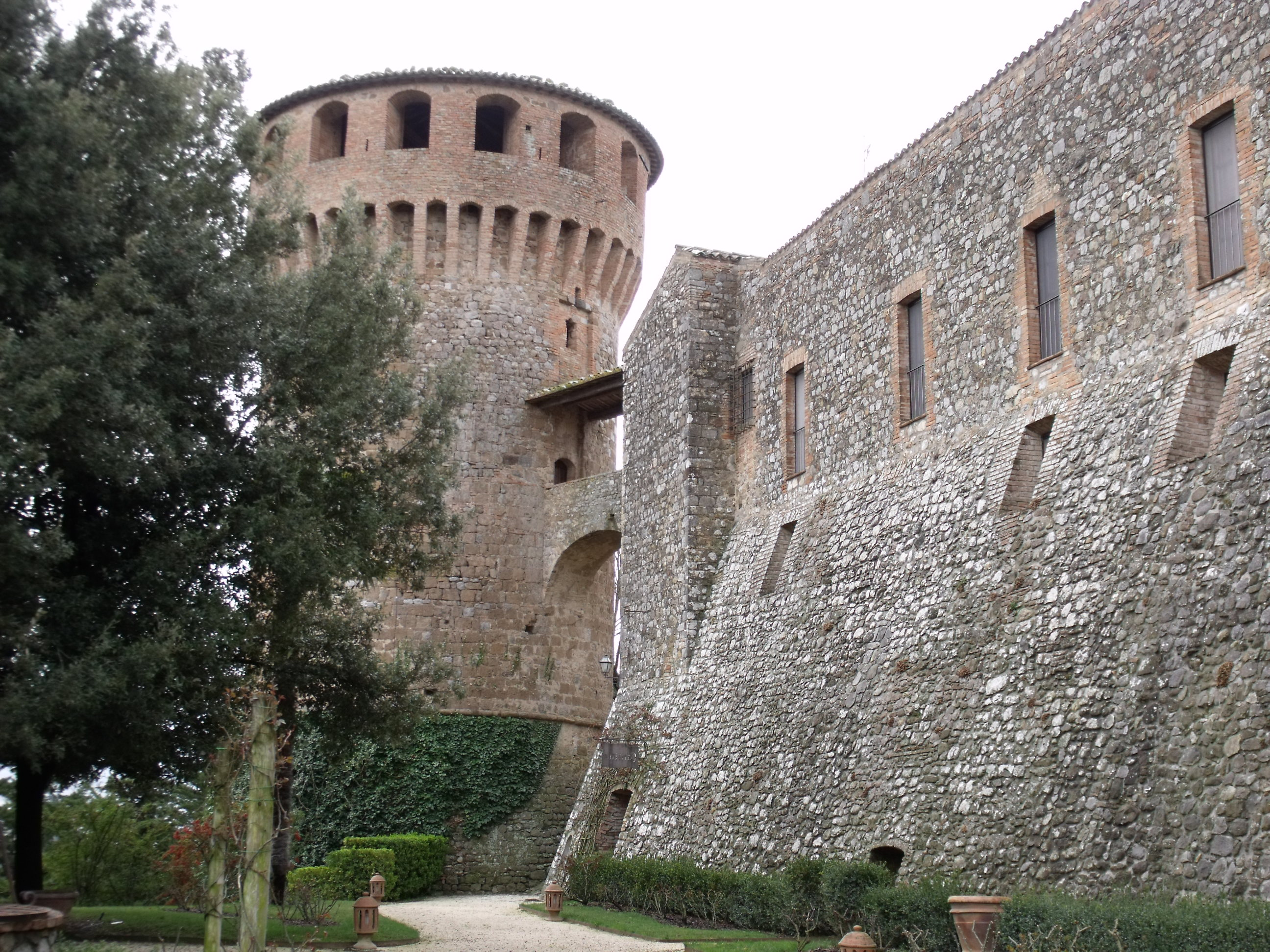 Castle Castello della Sala in Sala (Ficulle), Province of Terni, Umbria, Italy